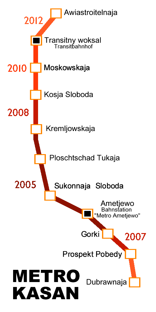 Kazan Metro Map in German